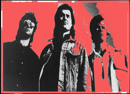 The Prime Movers, 1988. Photo shot at the San Gabriel Mission, San Gabriel, CA.